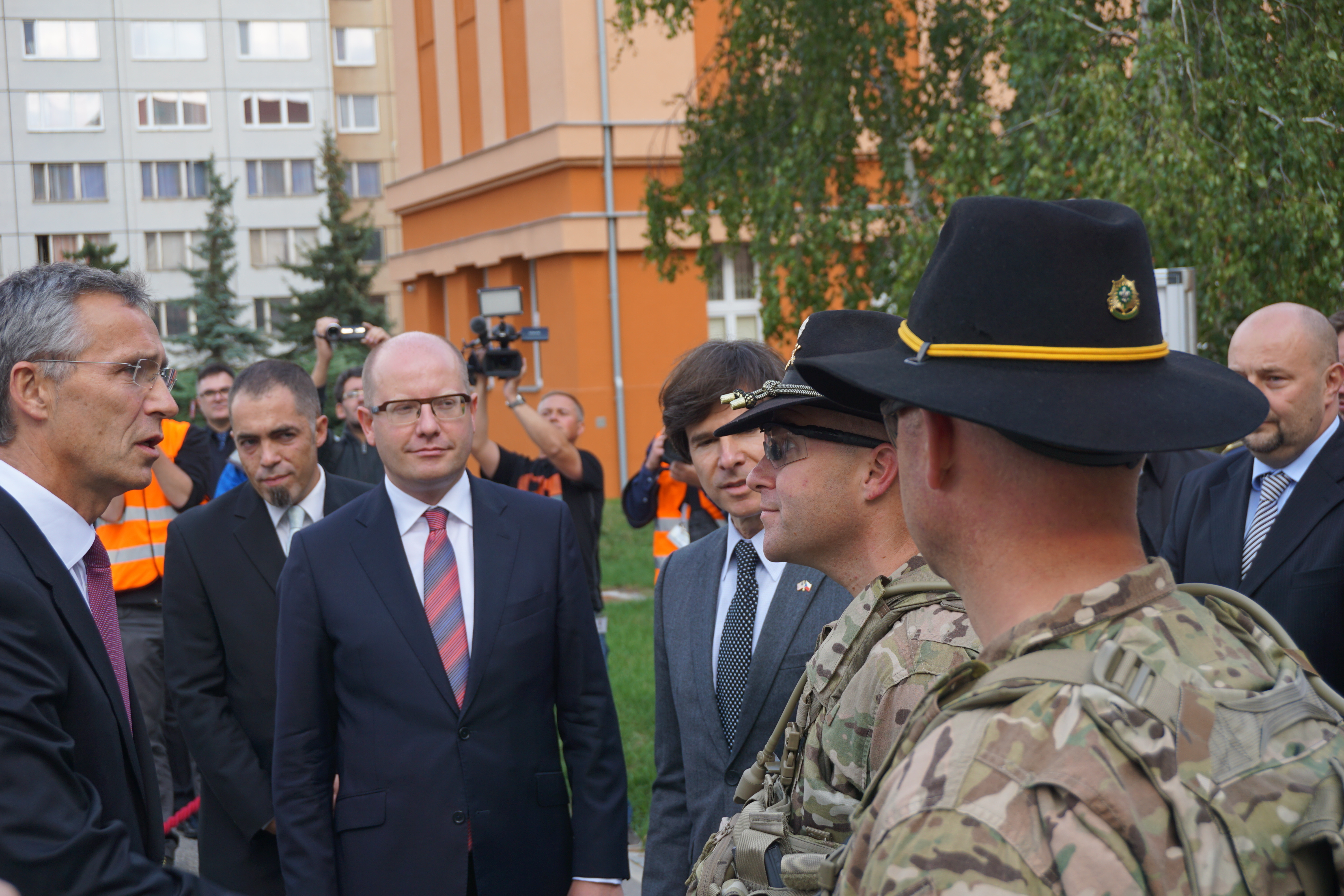 U.S. Army Lt. Col. Jonathan L. Due, commander of 4th Squadron, 2nd Cavalry Regiment, discusses the Dragoon Crossing during the U.S. static display with Jens Stoltenberg, secretary general for the North Atlantic Treaty Organization, Prime Minister of the Czech Republic Bohuslav Sobotka and U.S. Ambassador to Czech Republic Andrew H. Schapiro at Ruzyne Military Barracks Sept. 9, 2015. Dragoon Crossing is intended to improve combined operational capability, freedom of movement and ensure the continued peace and stability of Europe. (U.S. Army photo by Maj. Andrew Ruiz, Engagements Chief for 4th Infantry Division, Mission Command Element)